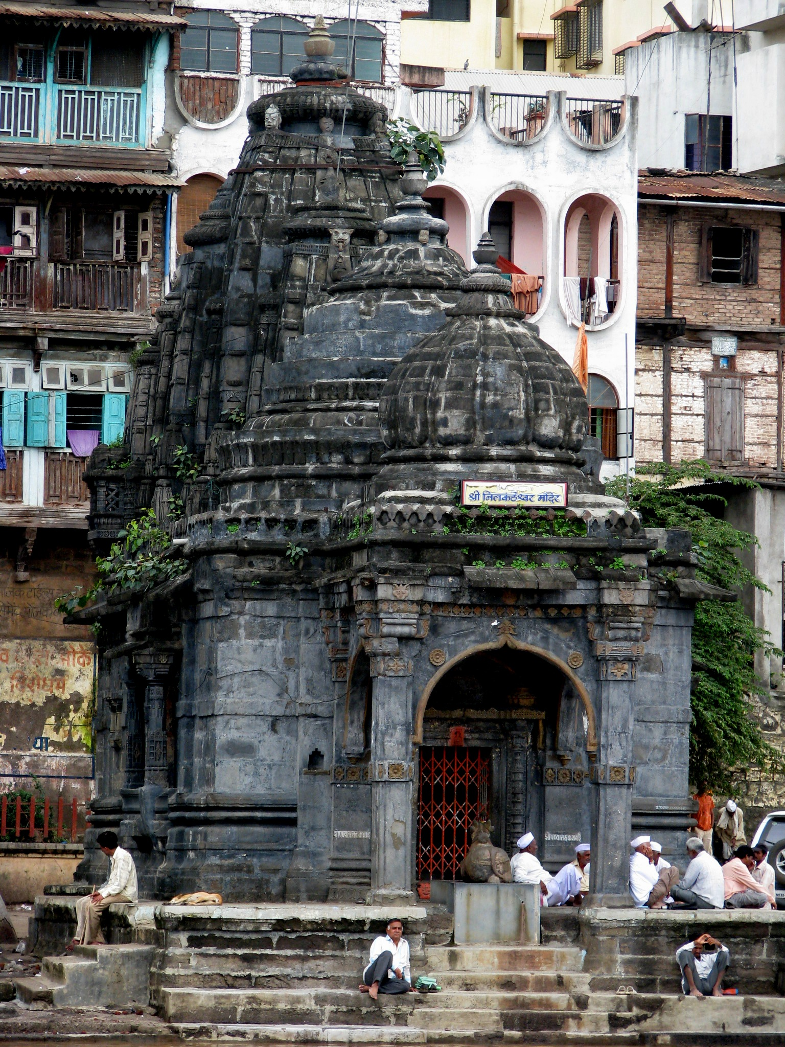 Neelkantheswar Temple, Nasik.